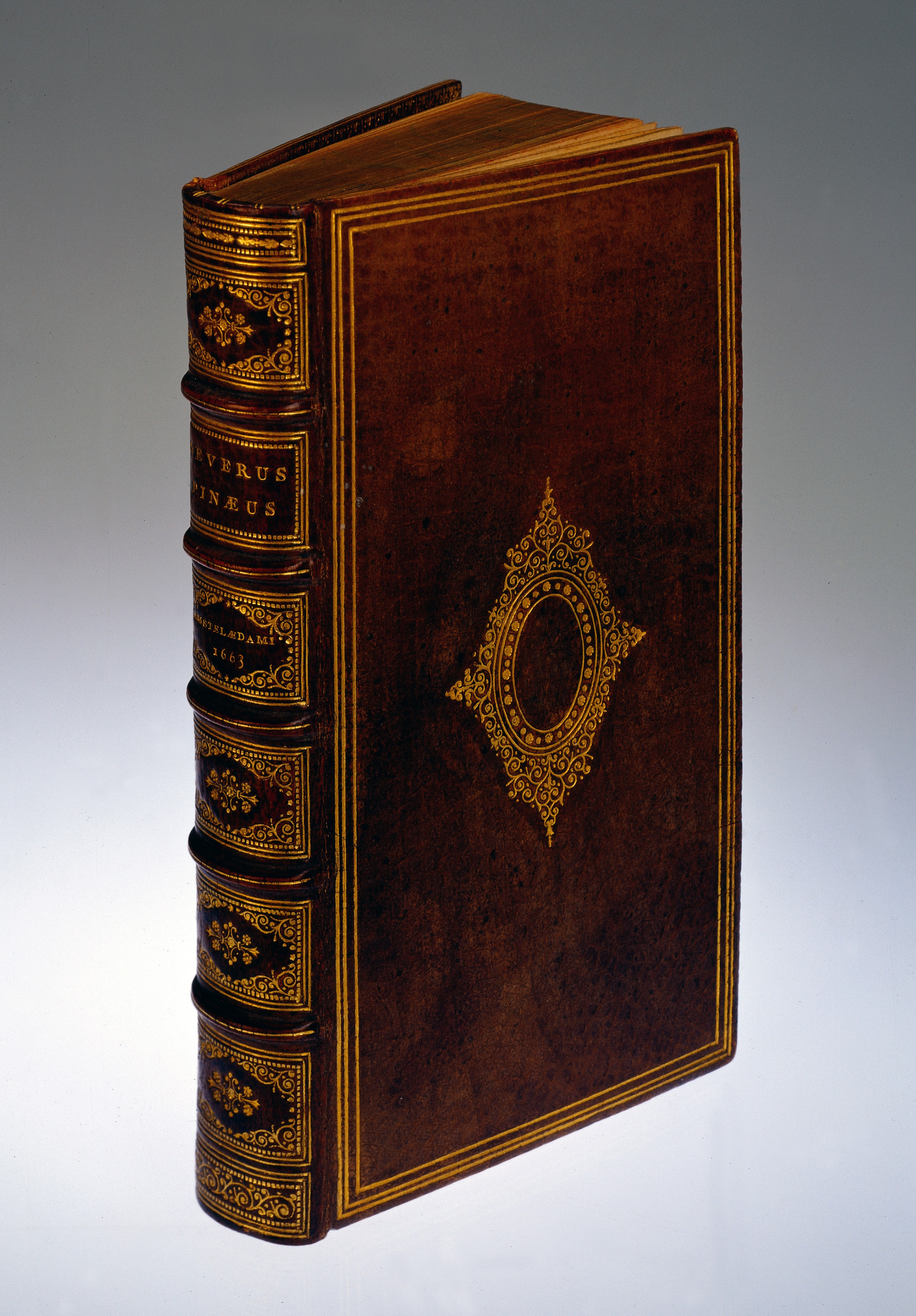 Front cover and spine Rare Books Keywords: VIRGINITY